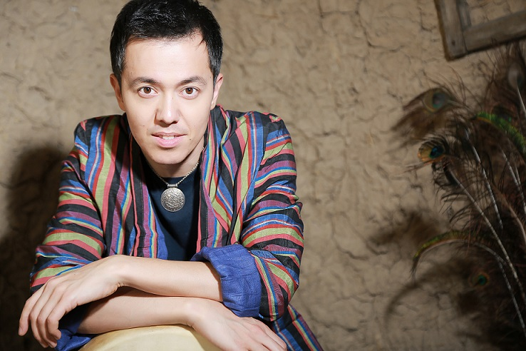 sharq